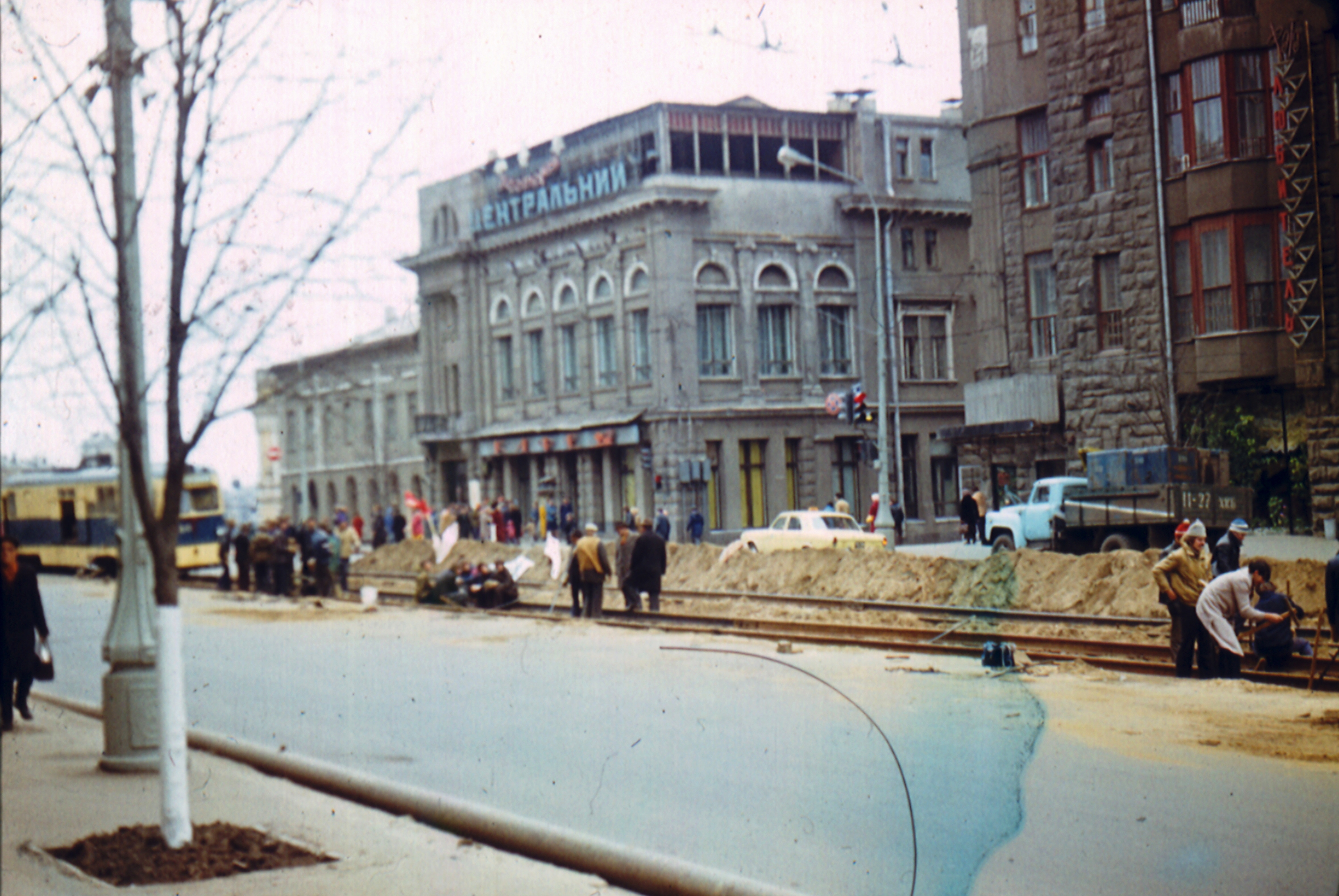 Kharkov ca. 1980-1981. Restaurant. R. Luxemburg Square.